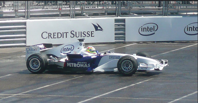 Augusto Farfus with BMW Sauber F1 07